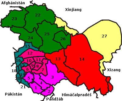 Districts of states Jammu and Kashmir (India) with part administered by Pakistan and China with marked border.